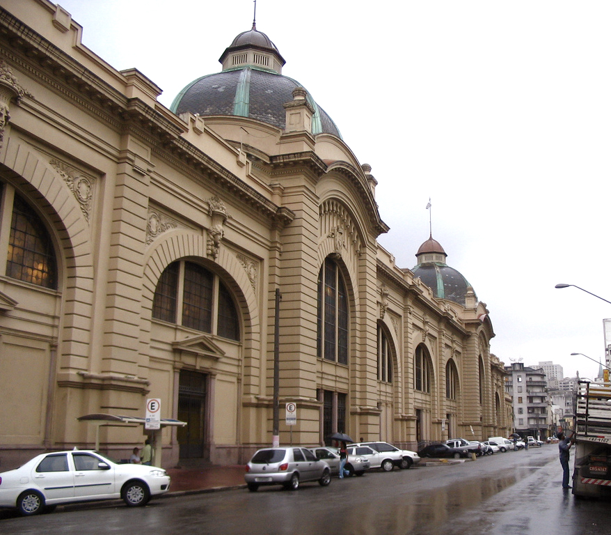 Mercado Municipal of Sao Paulo, Brazil